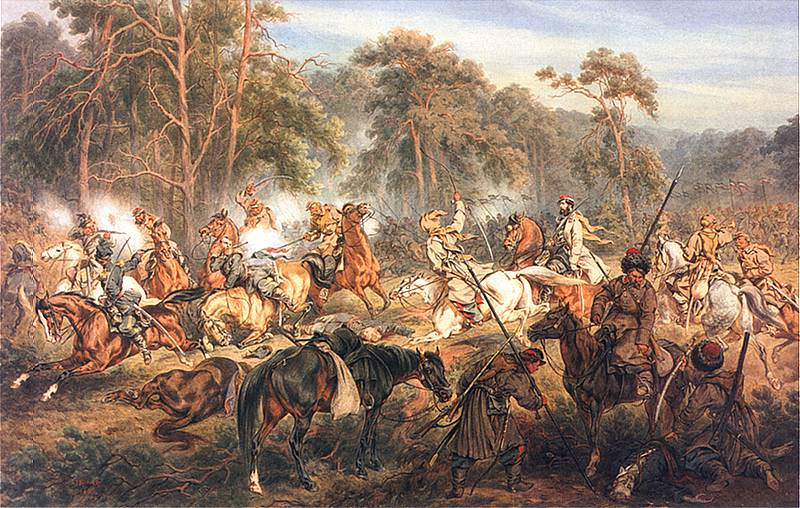 Battle of Ignacewo, 1863. Watercolor on cardboard.